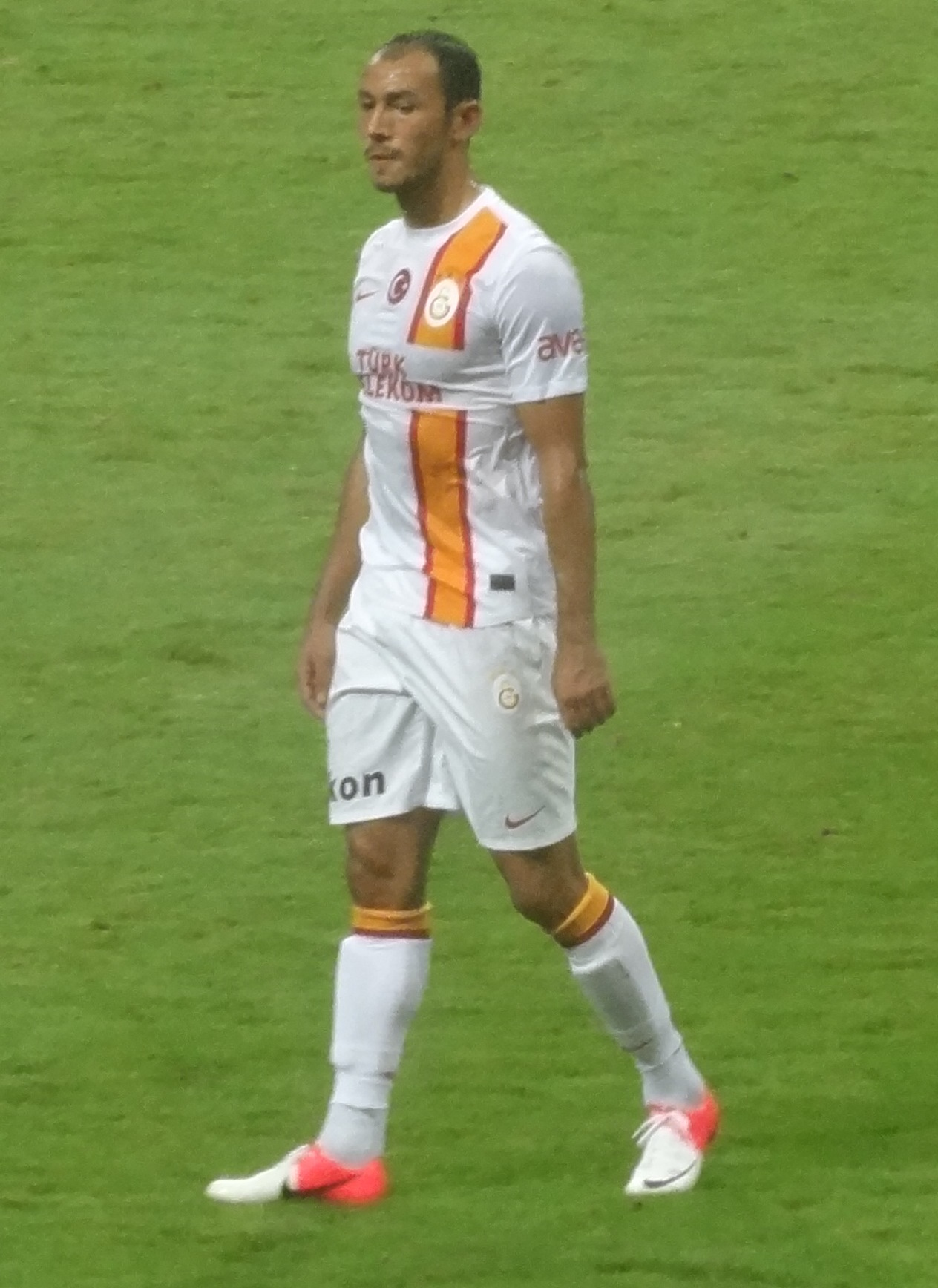 Umut aginst Fiorentina he scored his first goal at TT Arena